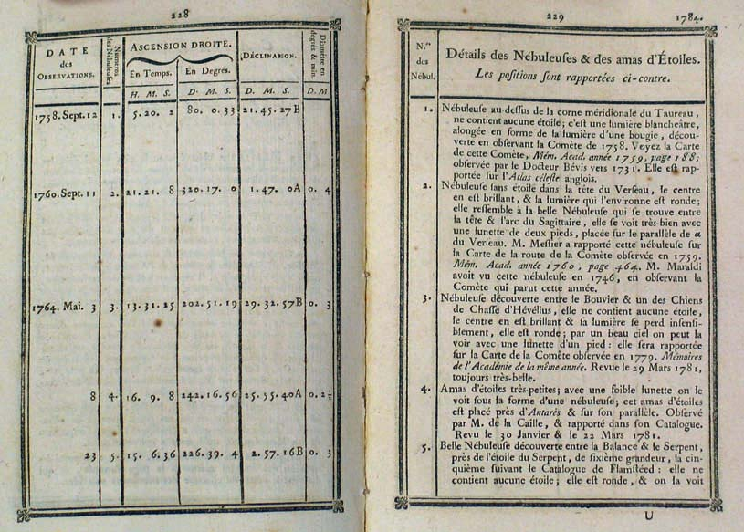 The first catalog page of Messier’s third version from 1781 with the objects M 1 to M 5.